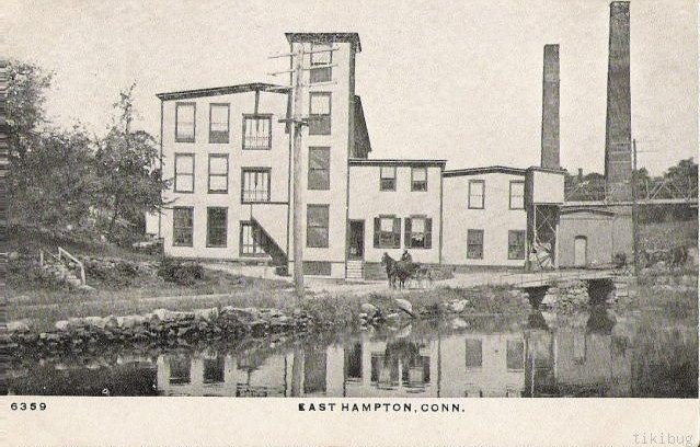 Postcard depiction of a factory in East Hampton, Connecticut. Postcard mailed June 16, 1908, according to postmark seen on address side of the postcard (shown on same store Web page). Postcard depicts an unnamed factory as seen from outdoors. Store watermark can be seen in lower righthand corner of picture, in white area.